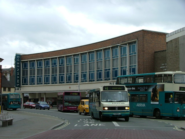 An example of modernist architecture in Derby Debenhams' soon to be vacated store on Victoria Street is a classic example of modernist architecture displaying a beautiful concave curve on its main frontage (accompanied by a convex curve on the Green Lane corner). Built between 1960 and 1962 as Ranby's department store it demonstrates that retail properties need not be unsightly. It is a credit to the architects, Evans, Cartwright and Woollatt. Debenhams is soon to relocate to the monstrous carbuncle that is the new Westfield Centre. It is a great shame that Westfield's architects and Derby's planning department did not take note of what is possible with a little vision!